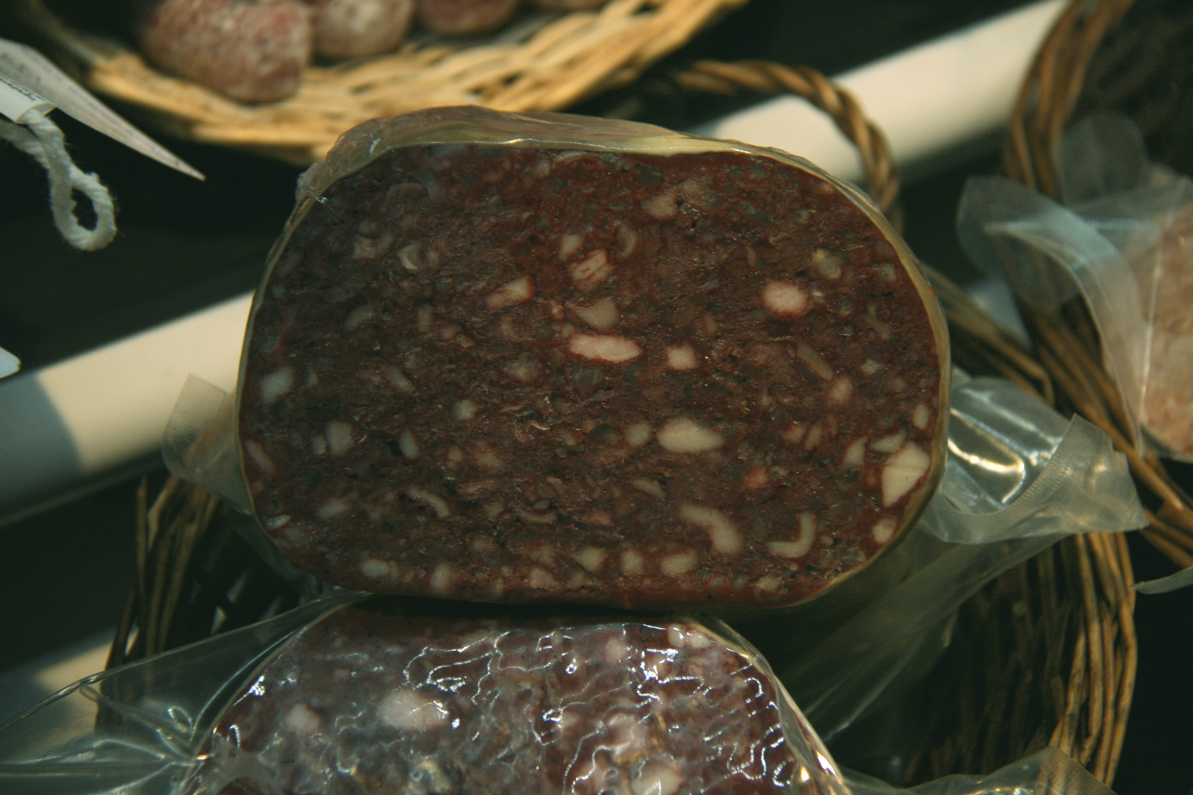 Catalan blood botifarra known as bull negre, paltruc negre, donegal negre or bisbe negre